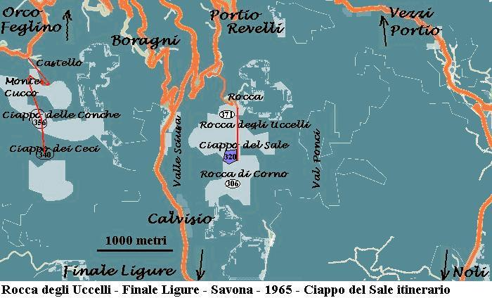 From Finale Ligure take the road to Vezzi Portio, called Via Calvisio and then Via Finale and traveling the valley beside the river Sciusa. After about 5 km you take a detour on the right up to Portio Revelli and after the bend, turn right onto Via Rocca. The road is landlocked, but closed in two different places, you have to take one on the right, as close to the plateau, here you leave the car. From the road you walk down along a mule track from Bird Rock to the Rock of the Horn. At about half way between the two fortresses, on the right, among rada vegetation, is the Ciappo of Sale.